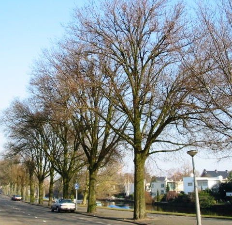 Ulmus minor 'Hoersholmiensis' (bernard zweerskade amsterdam); Photo by R. Nijboer